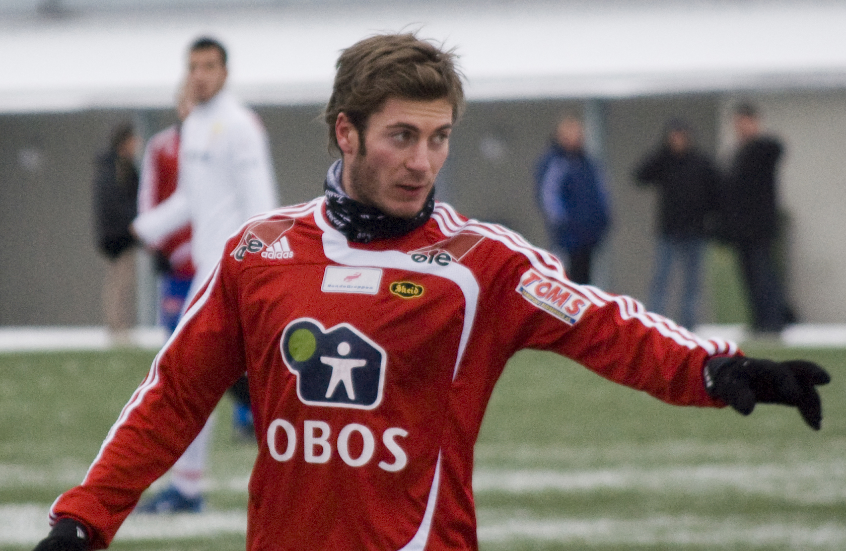 Skeid's Tom Erik Breive against Oslo City at Skeid's treining ground Nordre Åsen in january 2009.